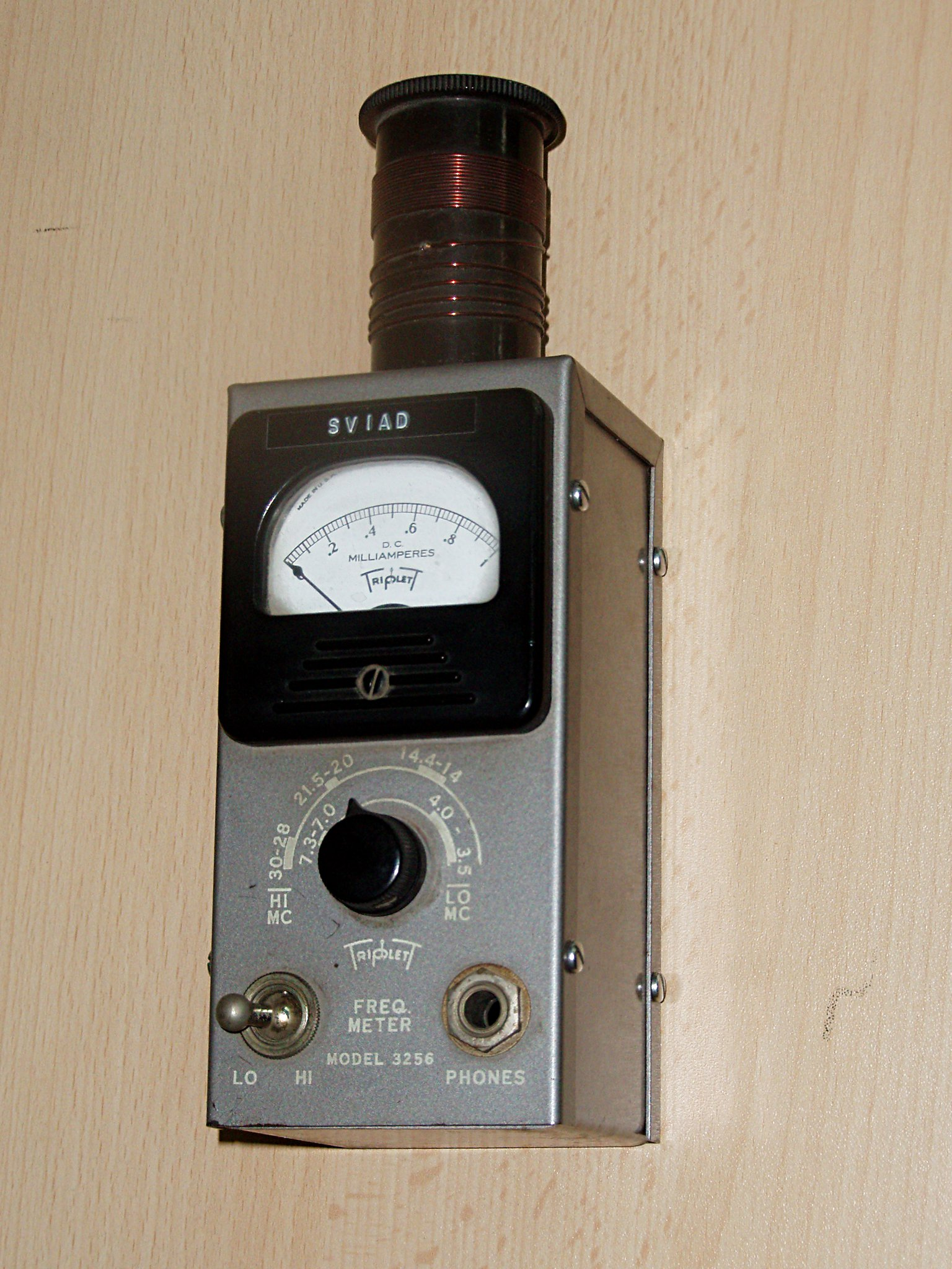 A Triplett 3256 HF wavemeter (frequency meter) covering 3.5-30 MHz in two bands. From the amateur radio station of Akis Lianos, SV1AD.